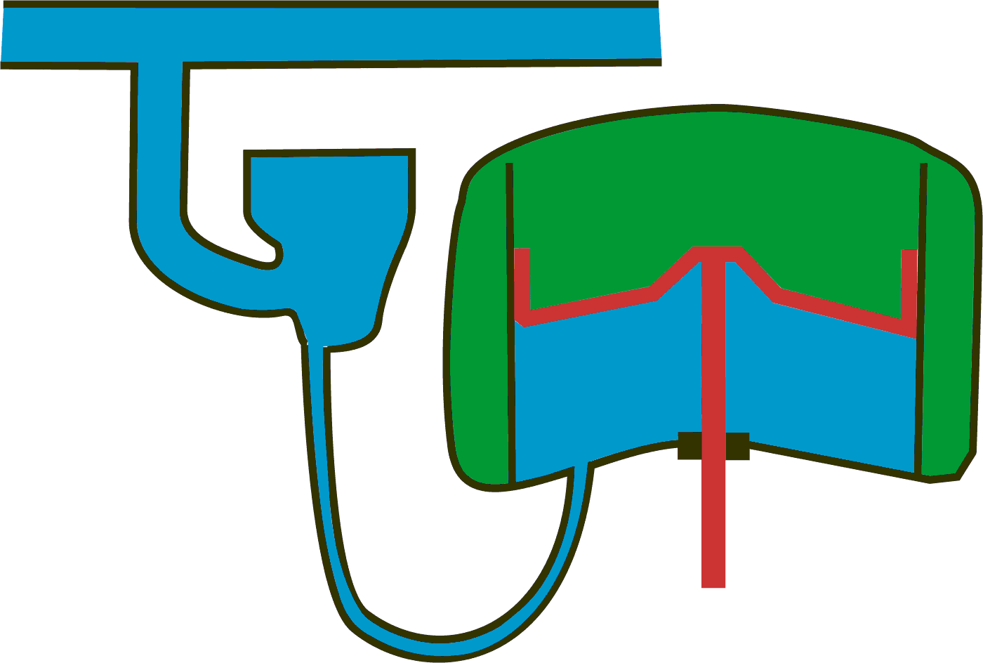 Schematic drawing of railway automatic vacuum brake cylinder with the brake applied